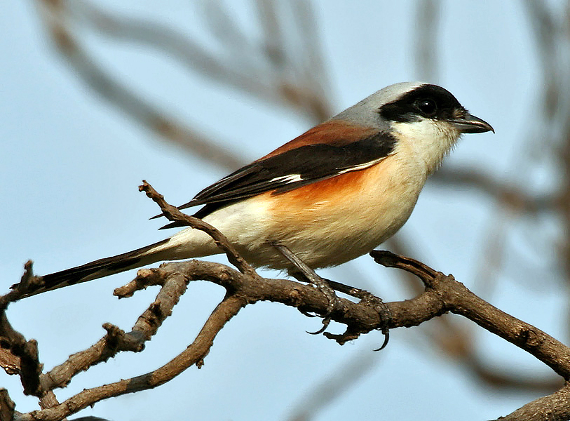 Bay-backed Shrike Lanius vittatus in Hyderabad, India.